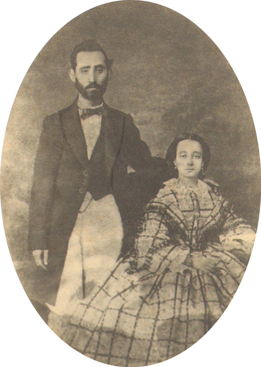 Miguel Dantas Gonçalves Pereira and Bernardina Maria da Silva Gonçalves Pereira (1860s), the mother and father of Portuguese First Lady Elzira Dantas Machado.